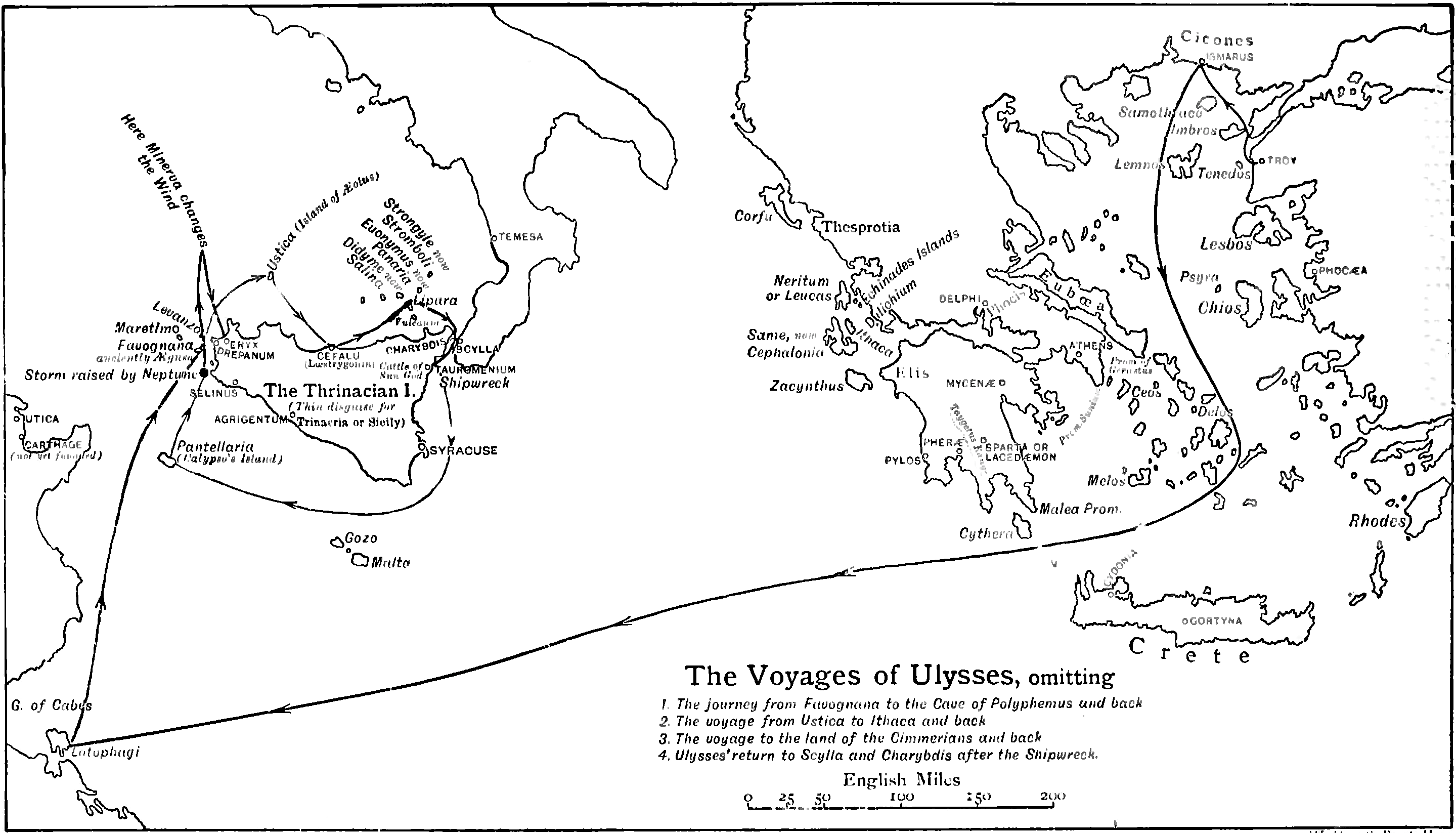 Map of the voyages of Ulysses in The Odyssey, from Samuel Butler's prose translation of The Odyssey (1900)